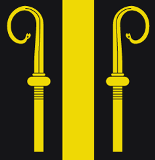 Blazon of Salmsach, Canton of Thurgau, SwitzerlandEsperanto: Salmsach de Arbon, Kantono Turgovio, Svislando